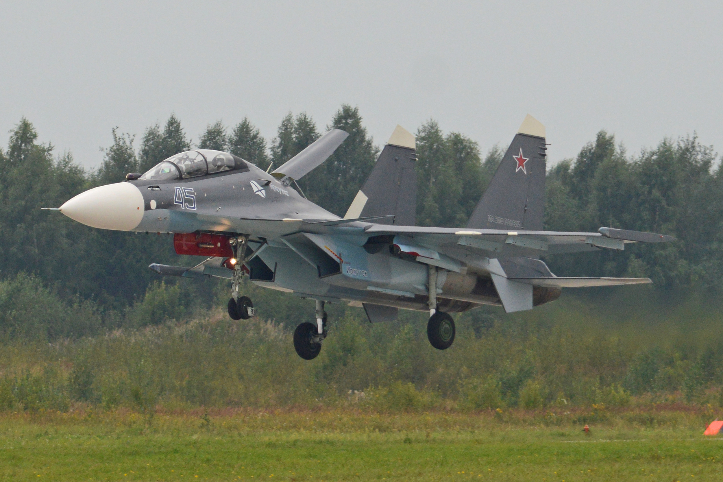 c/n 10MK51403. NATO codename ‘Flanker-C’ Operated by the 43rd Independent Naval Assault Aviation Regiment (OMShAP) Russian Navy, based at Saki. Named ‘Irkutsk’, after the largest city in Siberia. Seen landing after displaying at the ARMY 2017, event held at Kubinka Airbase, Moscow Oblast, Russia. 23rd August 2017